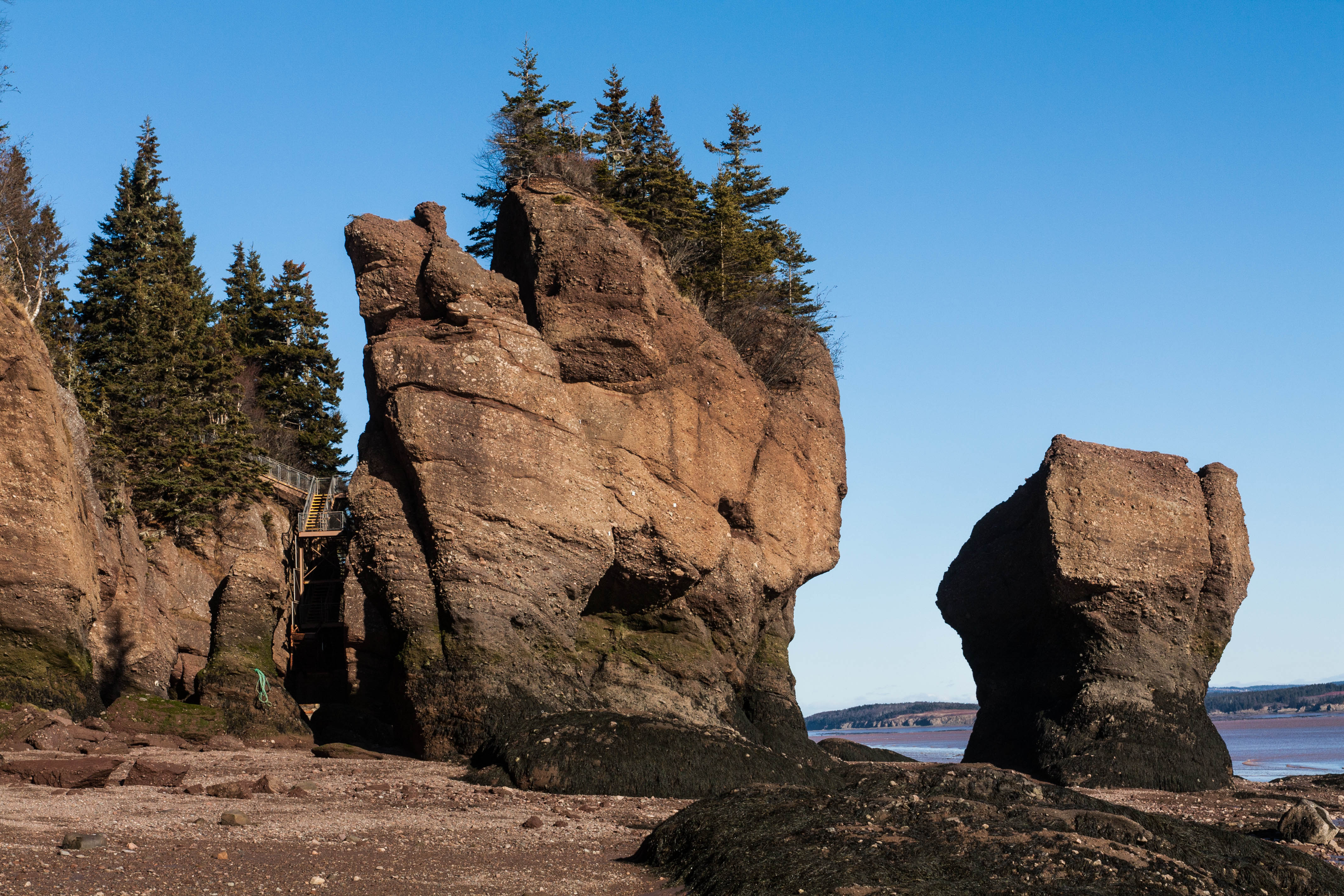 Tilted layers of sandstone at Hopewell Rocks in the Bay of Fundy in Nova Scotia, Canada.